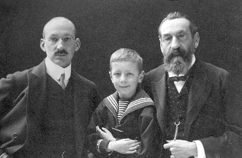 Ernst Poensgen (1871-1949) with son Georg (1898-1974) and father Carl (1838-1921)